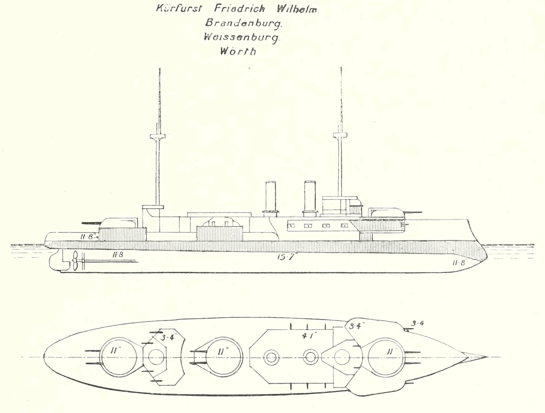 Diagrams depicting right elevation and plan of German battleship Brandenburg class.